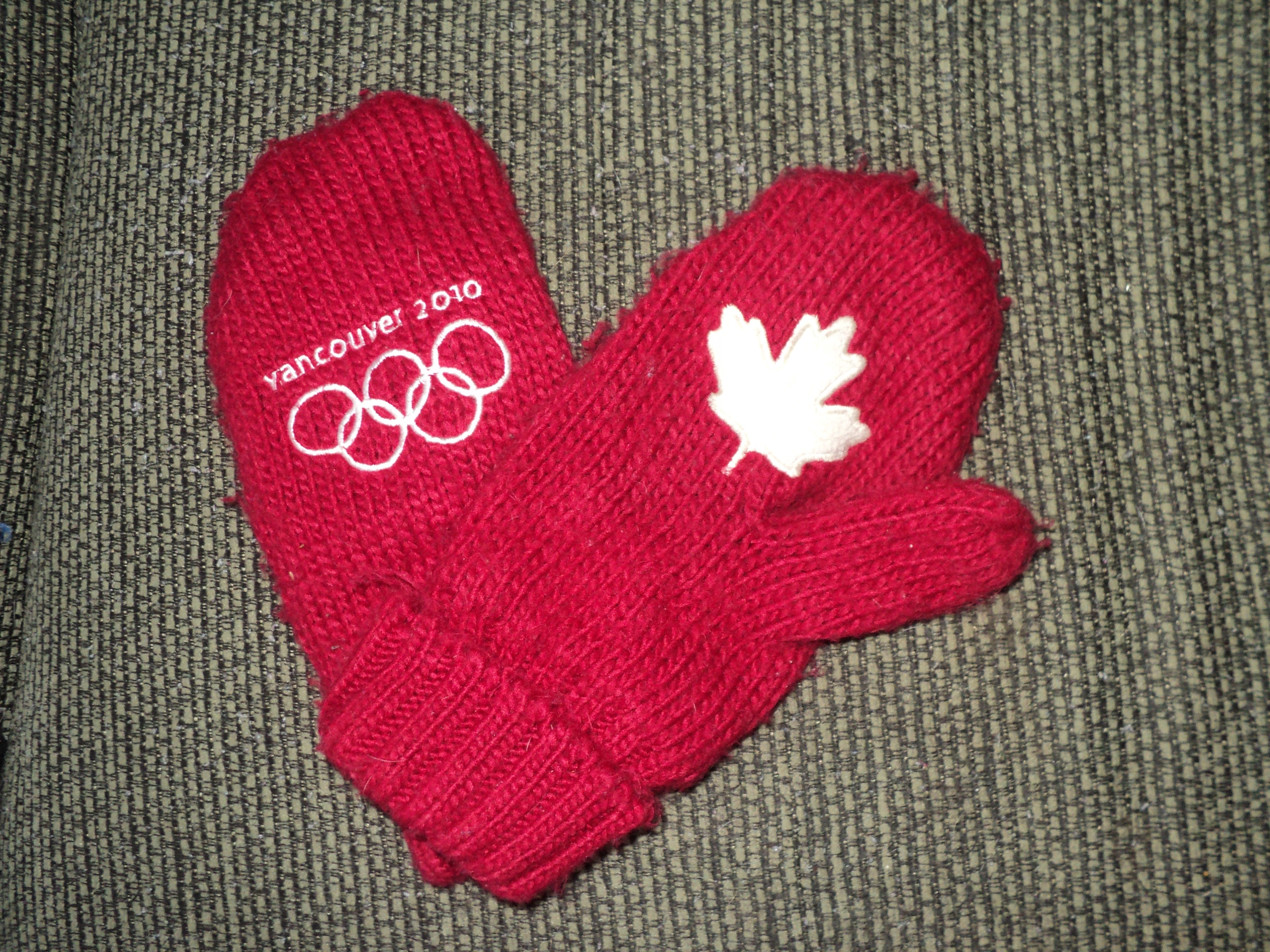 Photo showing the red Olympic mittens sold by HBC during the Vancouver 2010 Olympic Winter games. From the personal collection of the uploader.